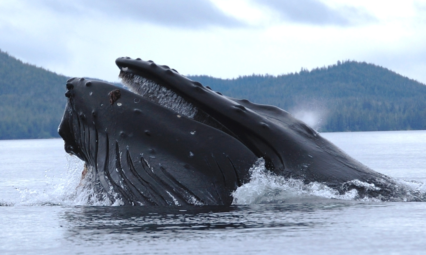 Humpback whale Megaptera novaeangliae straining krill. Location: Alaska Southeast